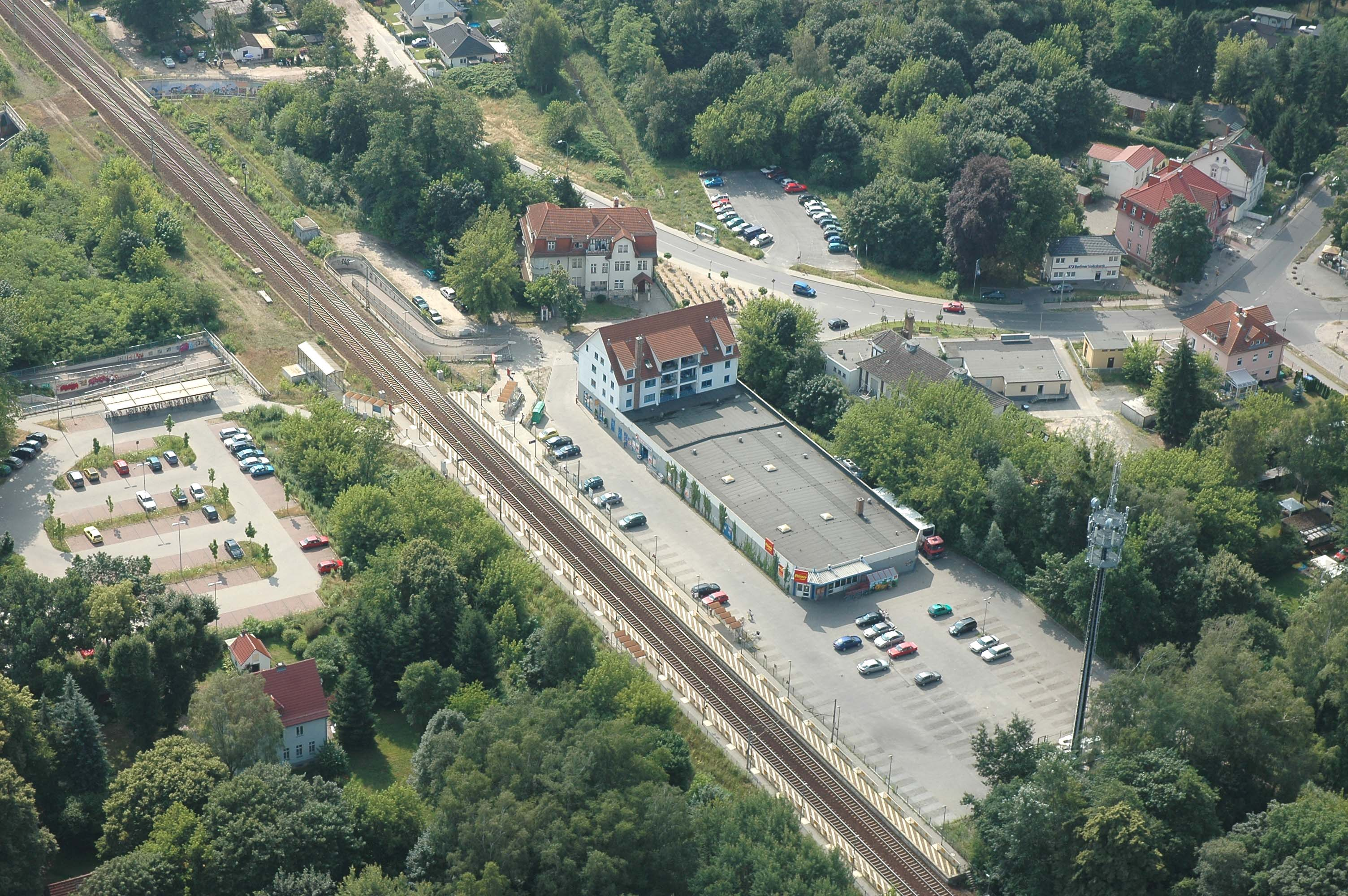 Aerial image of station "Finkenkrug" in Falkensee. Look towards southeast.